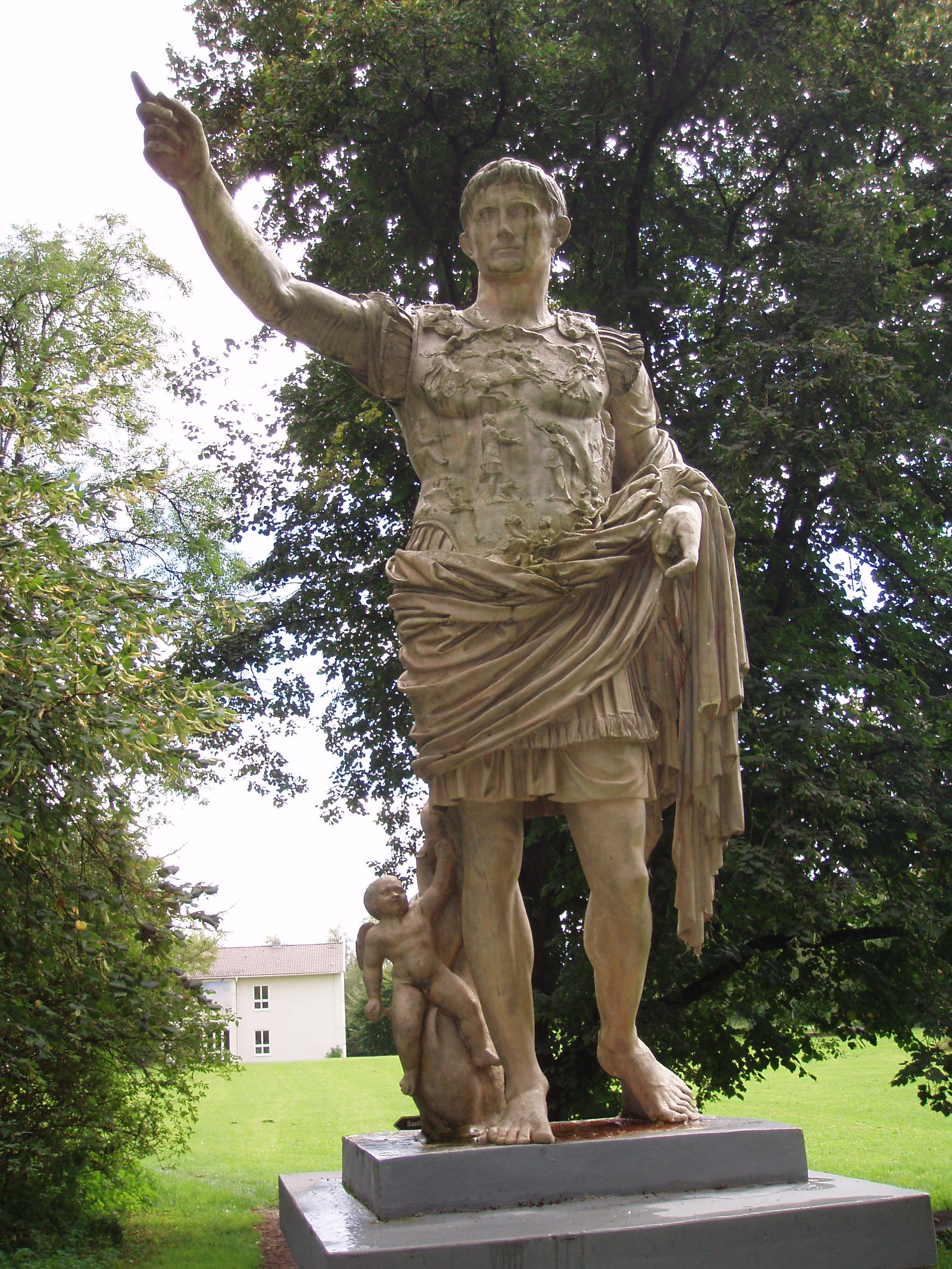 Modern replica of the statue of the so-calles "Primaporta Augustus" in Kempten, Germany.